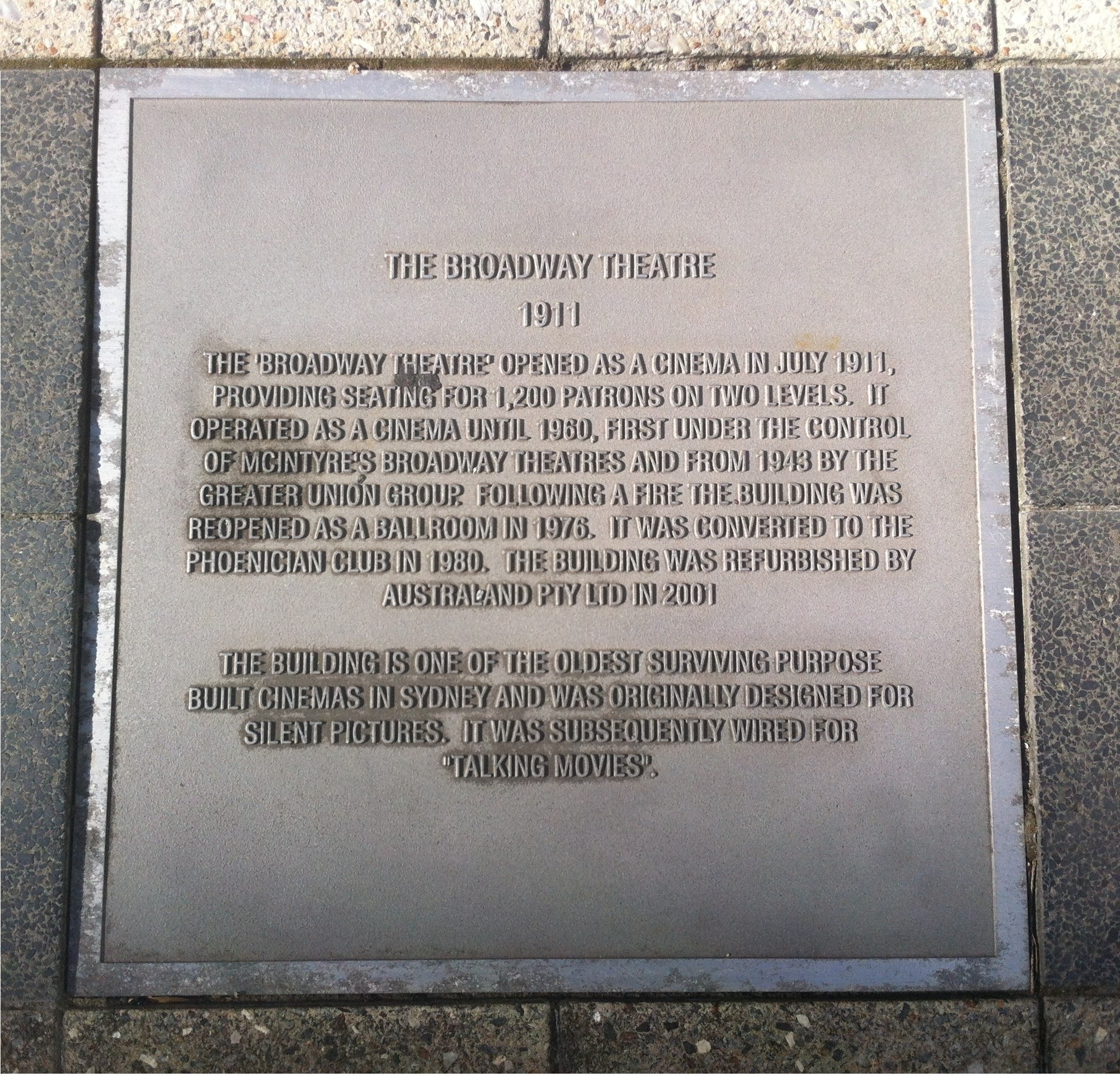 Plaque erected on site of the former Phoenician Club, Ultimo, New South Wales, Australia